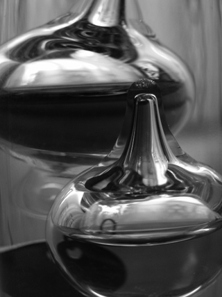 Summary Author: Marko Meza